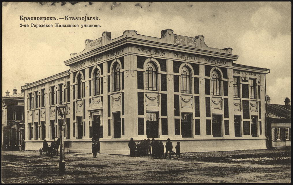 2-nd Town primary school. Architector is V.A. Sokolovsky. Bilt in 1911. 150, Lenin st., Krasnoiarsk